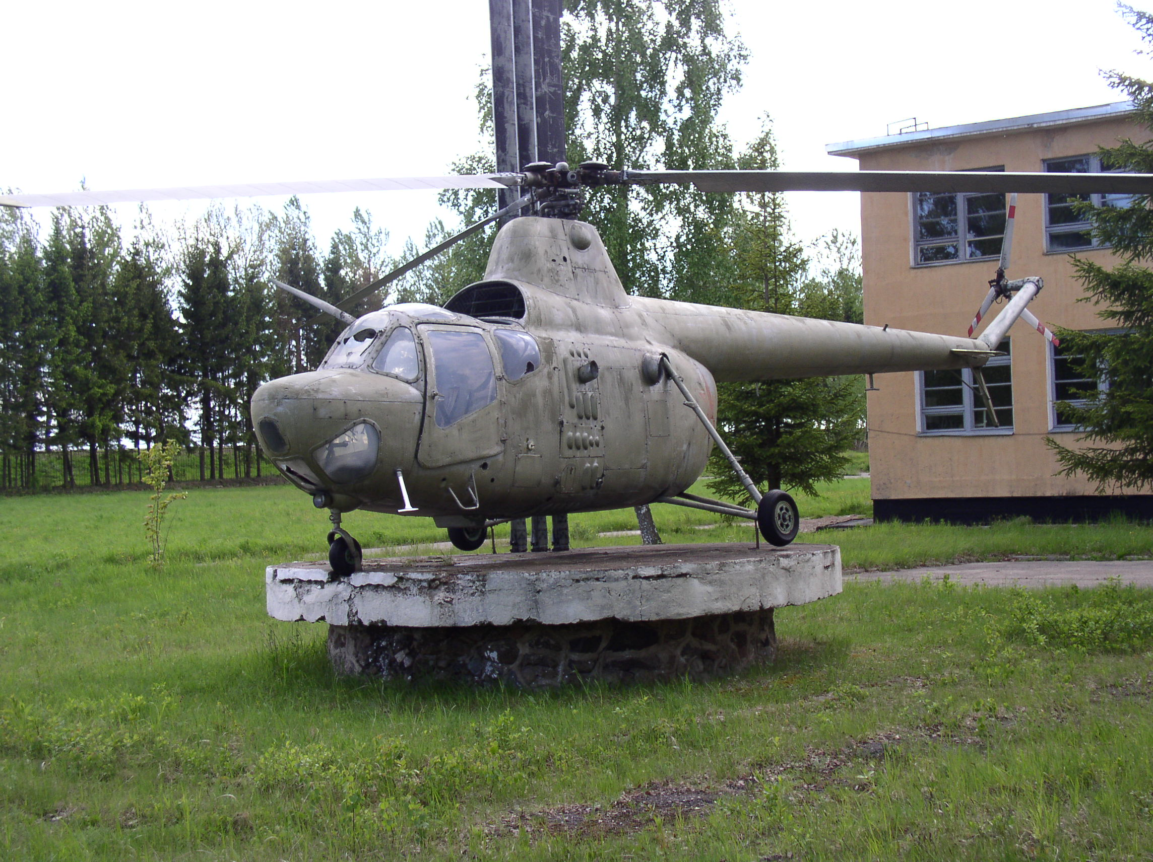 Helicopter Mi-1 of Vitsebsk's aeroclub. Belarus.